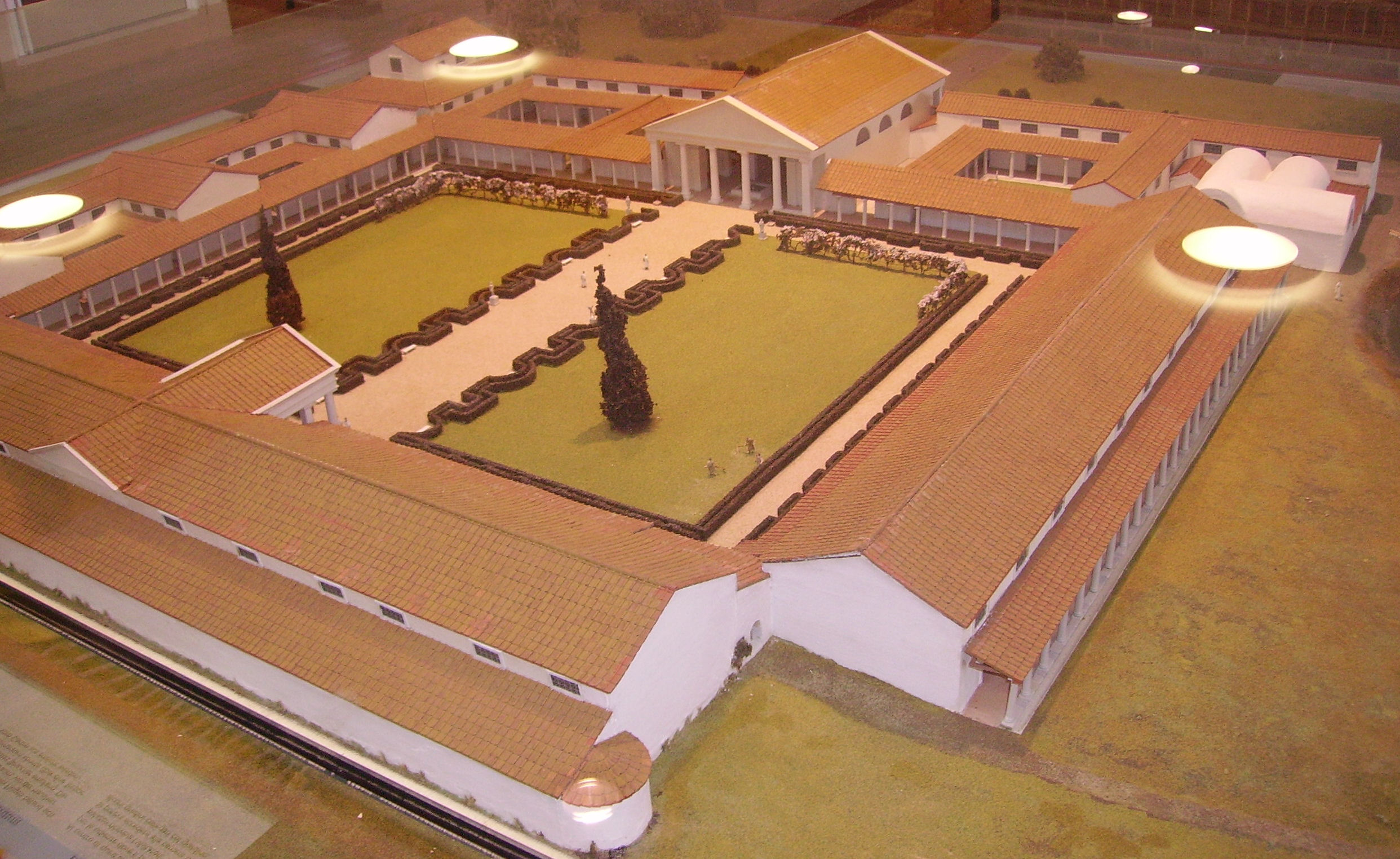 view of Fishbourne Roman Palace in West Sussex, United Kingdom